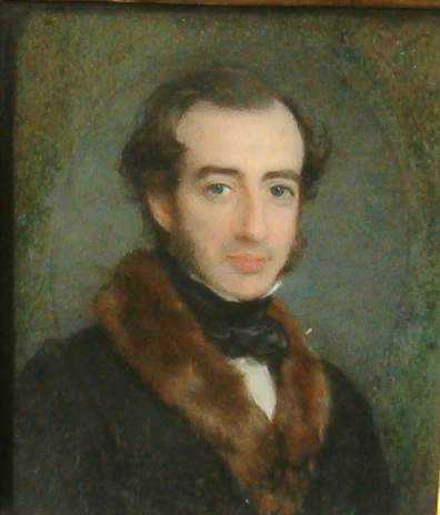 c. 8 x 6 cm